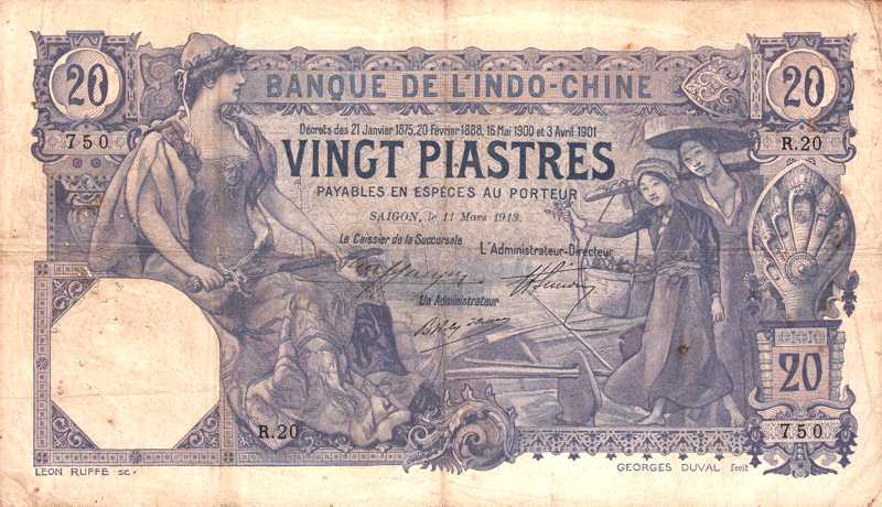 R° of the 20 piastres Banknote printed for the Banque of Indochine by the Banque de France in 1913 - Designed by Georges Duval and engraved by Léon Ruffe.